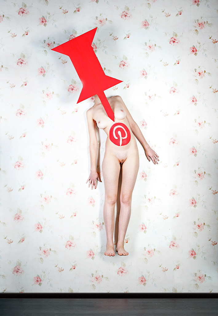 Pin is a picture on content sharing service Pinterest, which allows members to "pin" images and to create with them picture collections. Service was launched in March 2010.